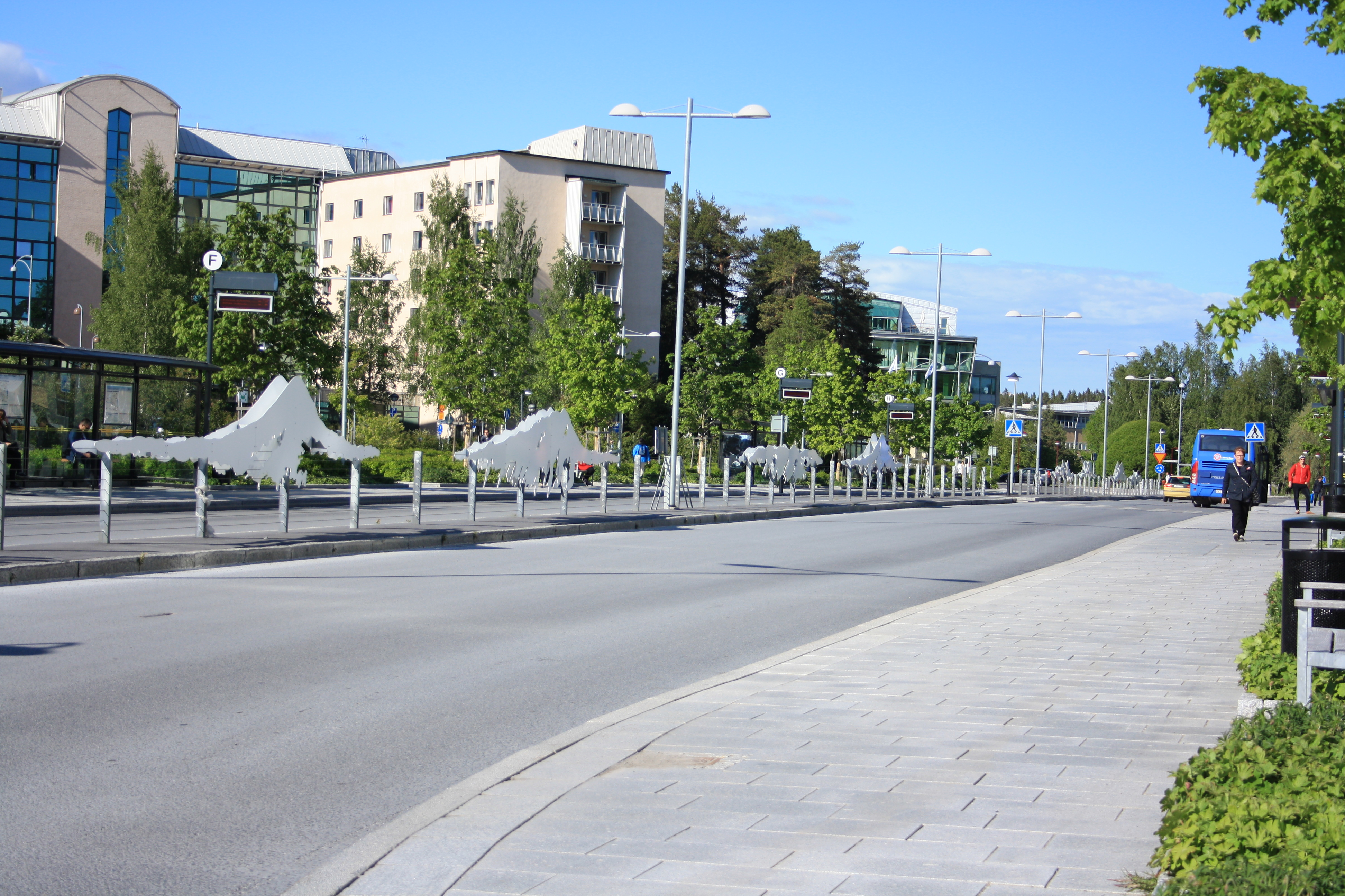 The public transport hub in the hospital area. Between roadways can see the artwork "Snow continents" by Eva Marklund